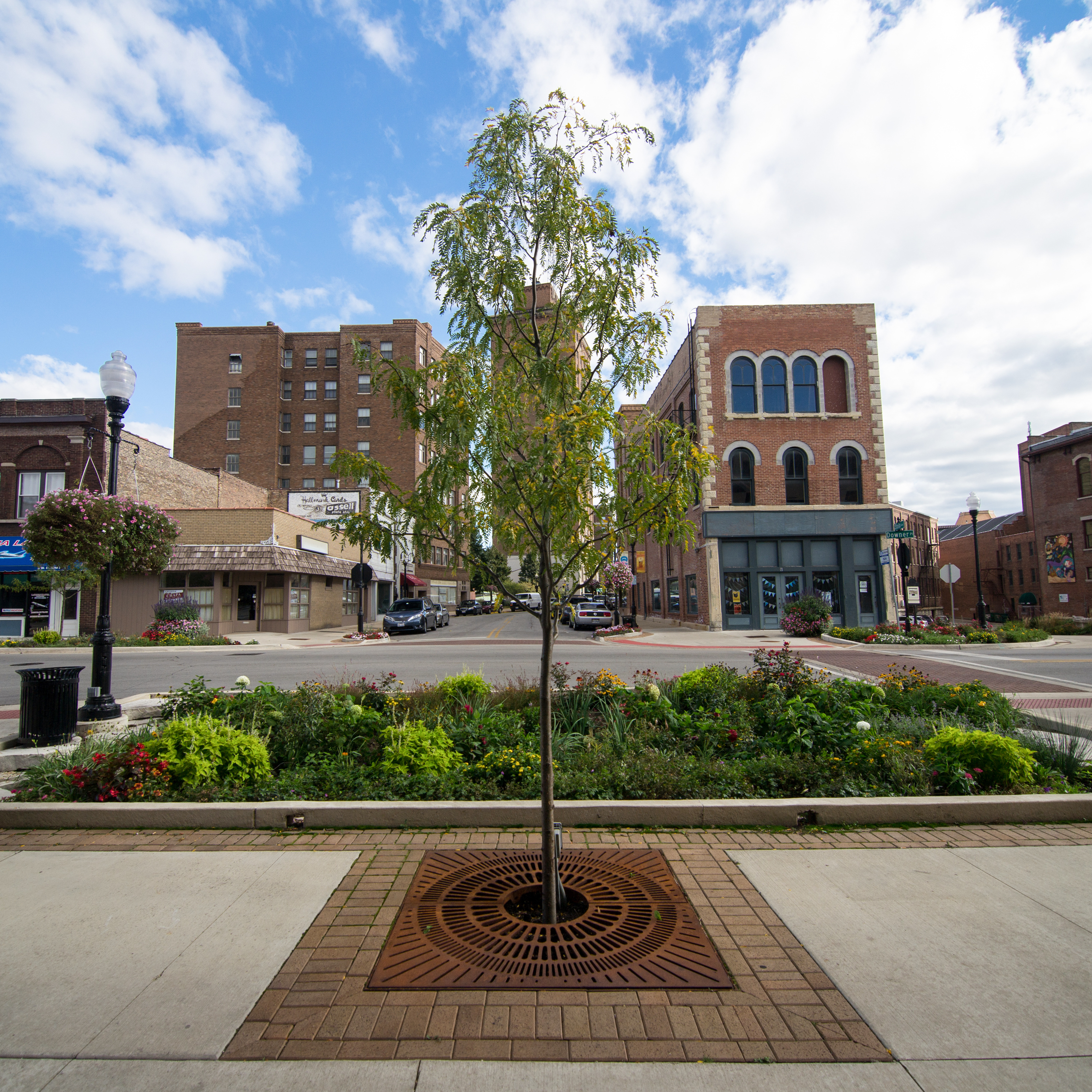 Downer Pl. in downtown Aurora, IL, is lined with rain gardens to reduce flooding and runoff.